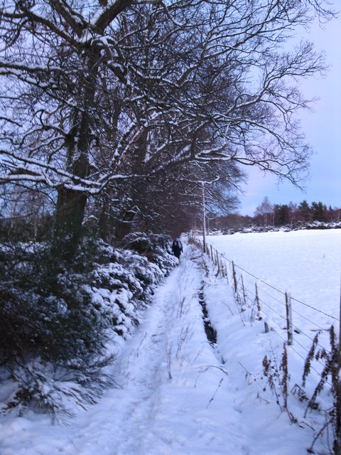 Footpath to Inshes The last of the light on a very cold day.